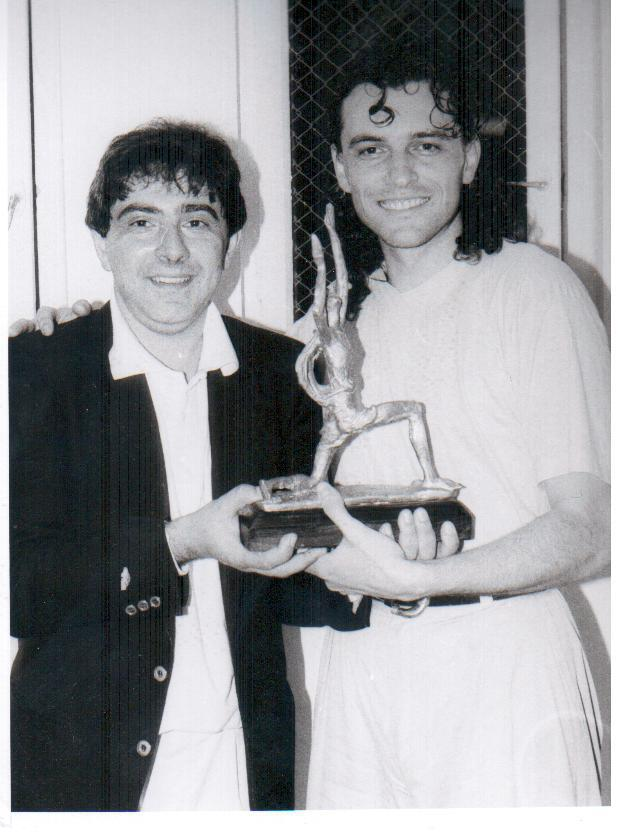 deyan angeloff nedelchev